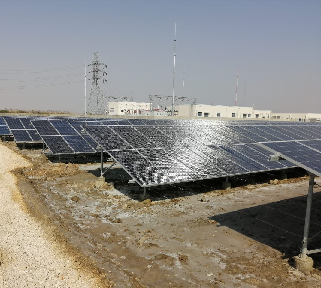 A solar power station, Gharo, Pakistan.